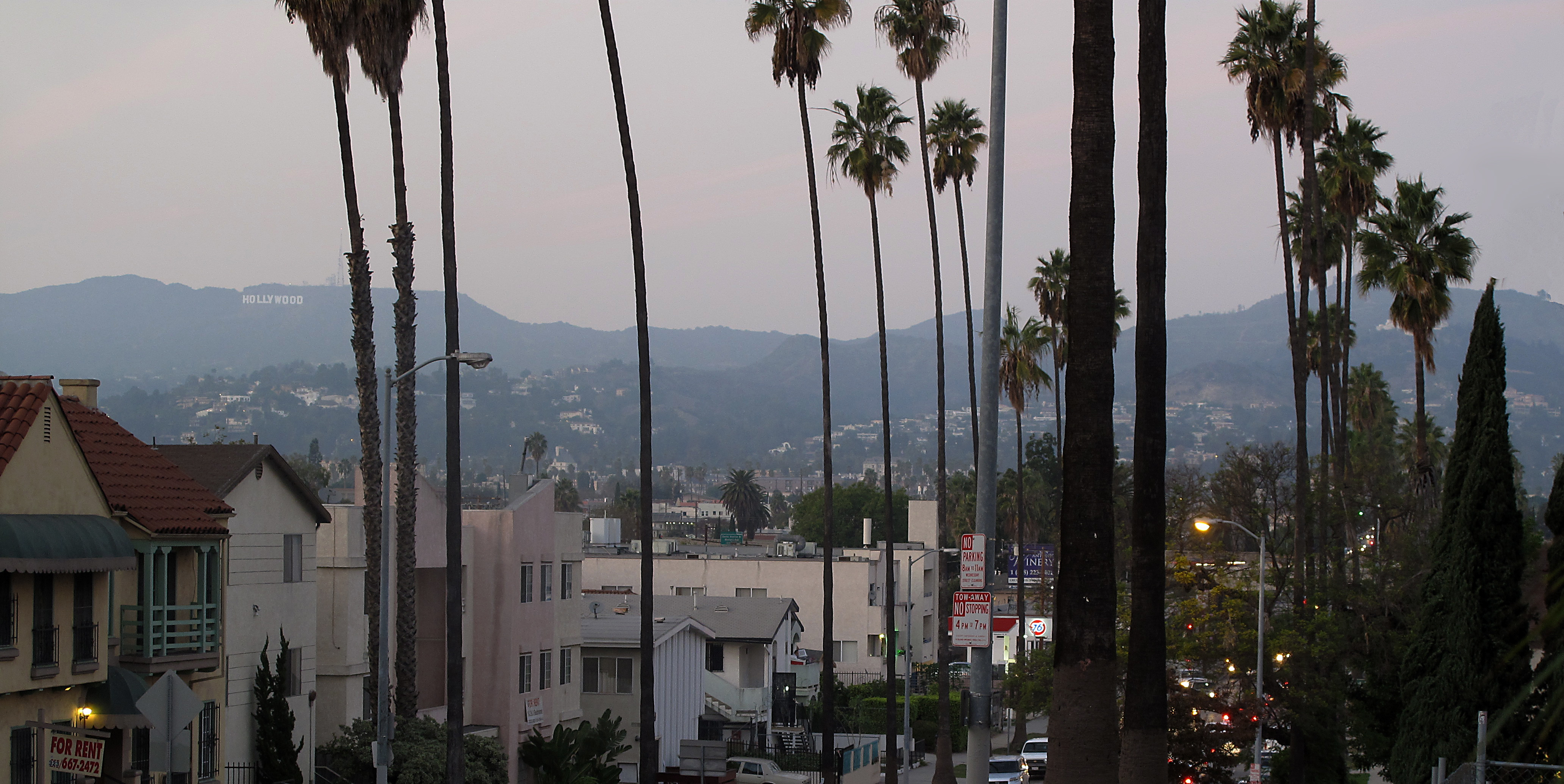 The Hollywood Hills and the Hollywood Sign, seen just after sunset from the hill on Normandie Avenue in East Hollywood, Los Angeles, CA. Mexican Fan Palm (Washingtonia robusta) street trees from the 1920s. The Hollywood Hills are the eastern section of the Santa Monica Mountains.